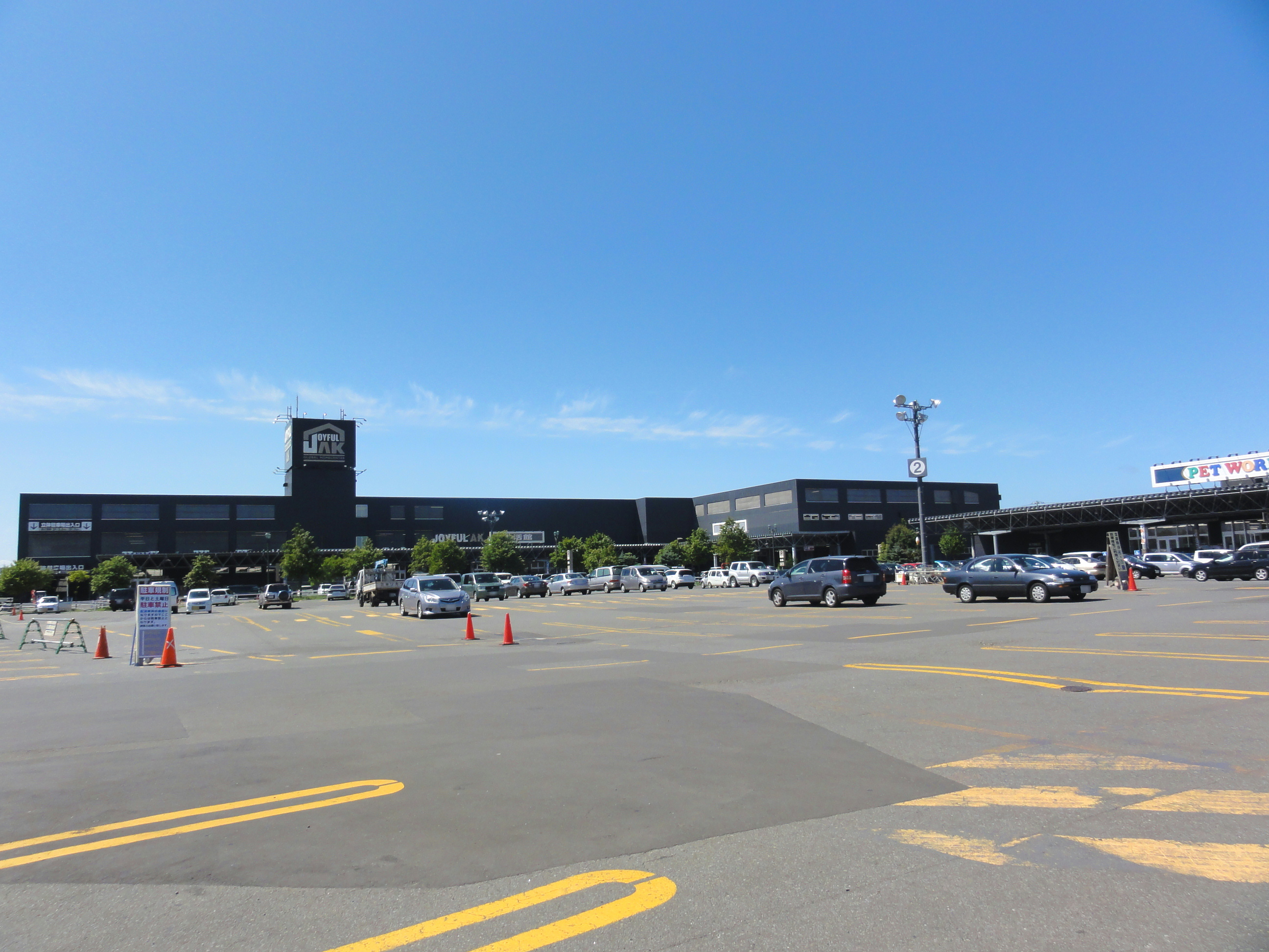 JOYFUL AK Tonden-ten (Kita-ku, Sapporo, Hokkaidō)